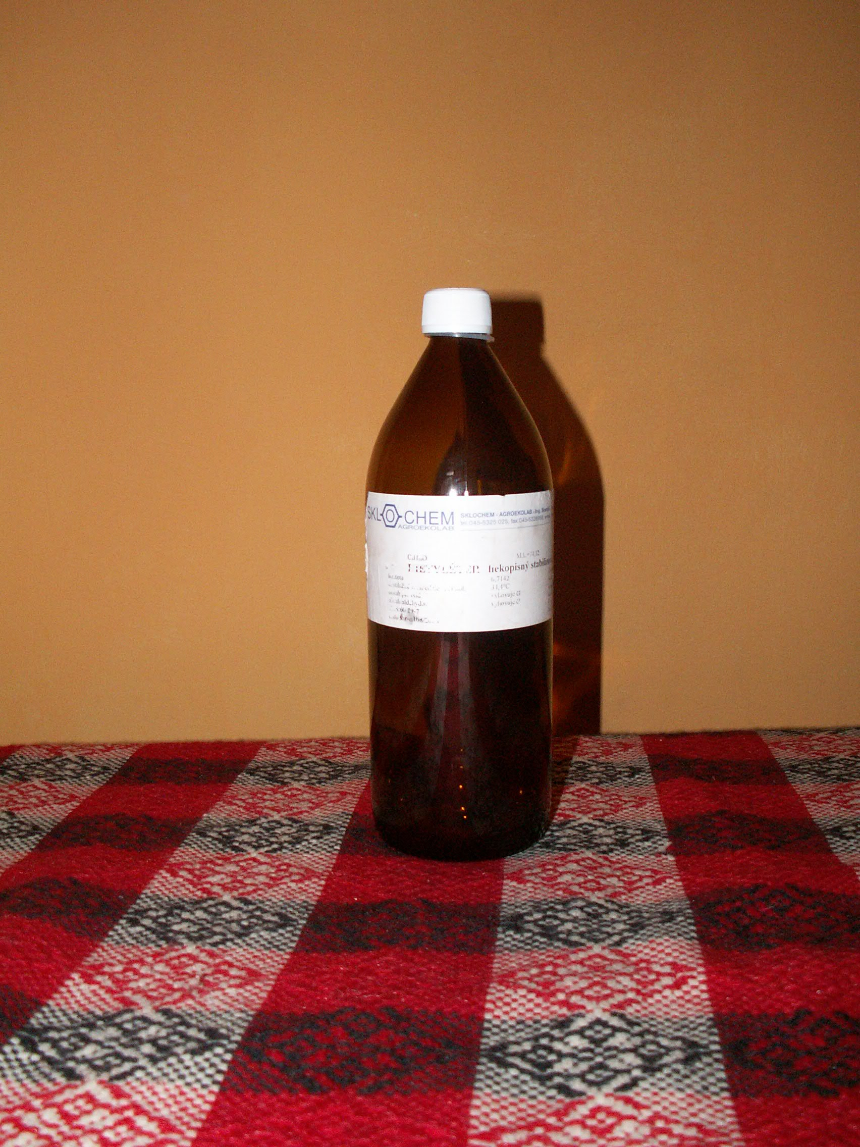 Eter dietylowy